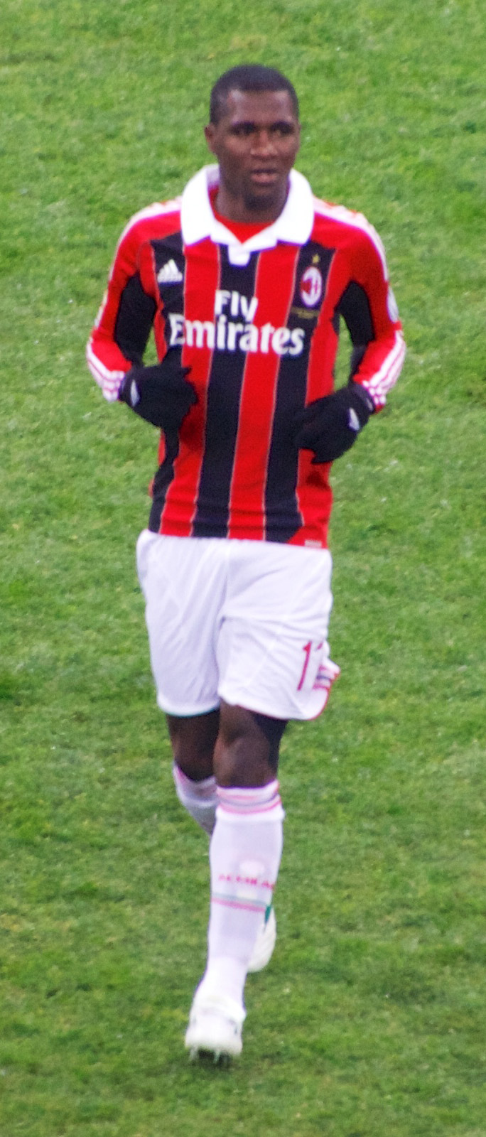 Cristián Zapata, AC Milan